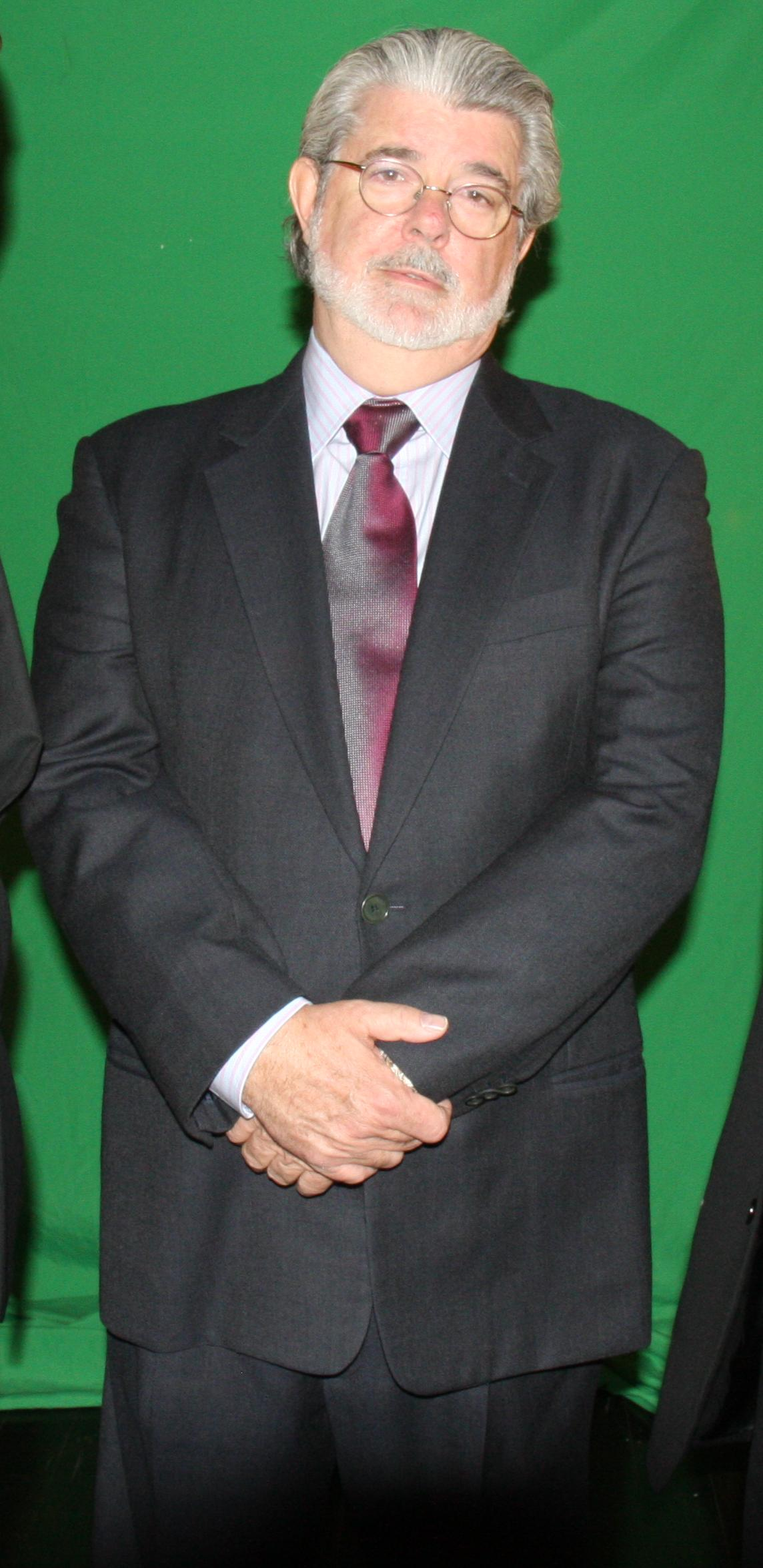 George Lucas, an Academy Award-nominated American film director, producer and screenwriter.